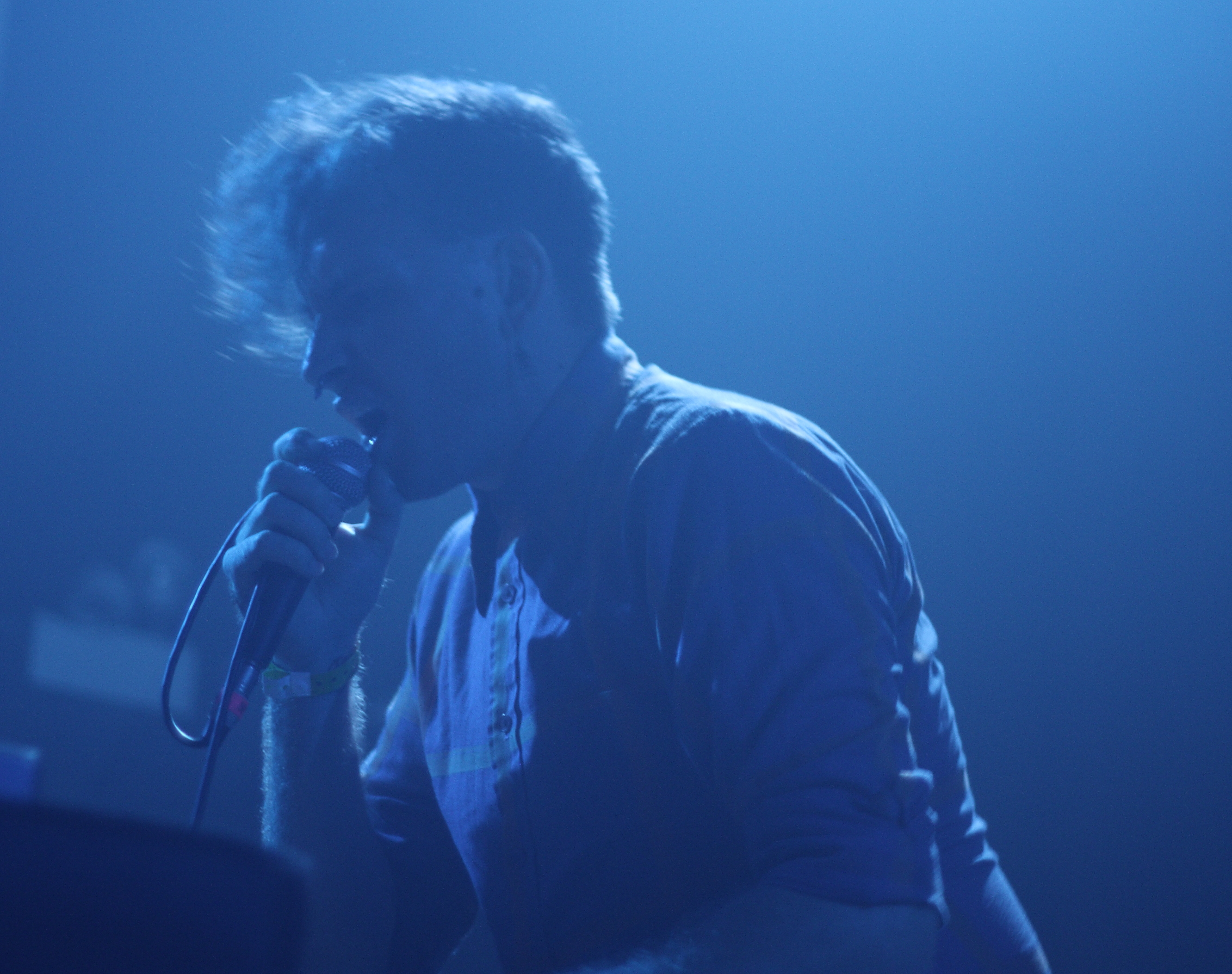 Cold Waves IV: Chicago: High-Functioning Flesh